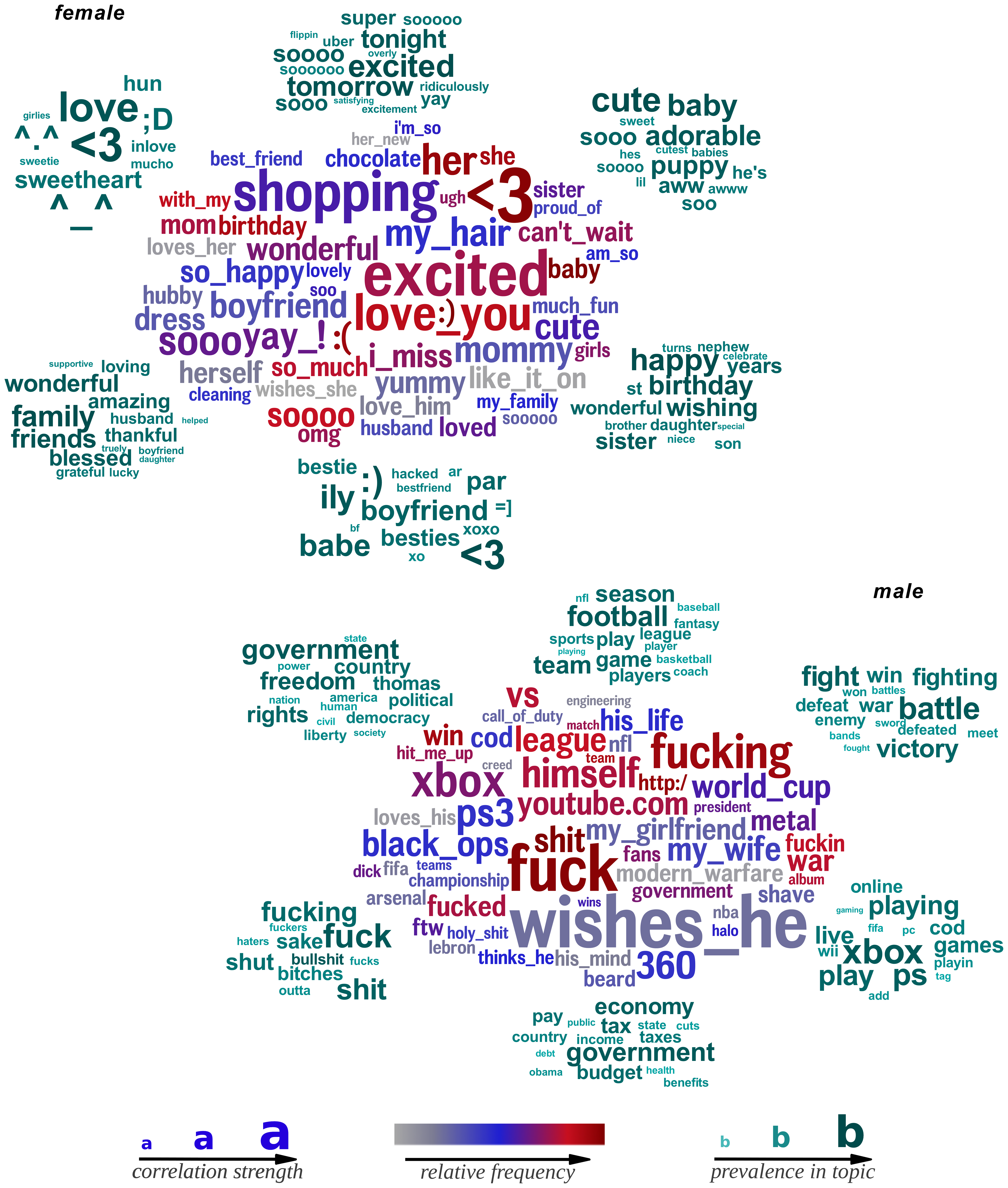 Female language features are shown above, male below. Size of the word indicates the strength of the correlation; color indicates relative frequency of usage. Underscores (_) connect words of multiword phrases. Words and phrases are in the center; topics, represented as the 15 most prevalent words, surround. (: females and males; correlations adjusted for age; Bonferroni-corrected ).